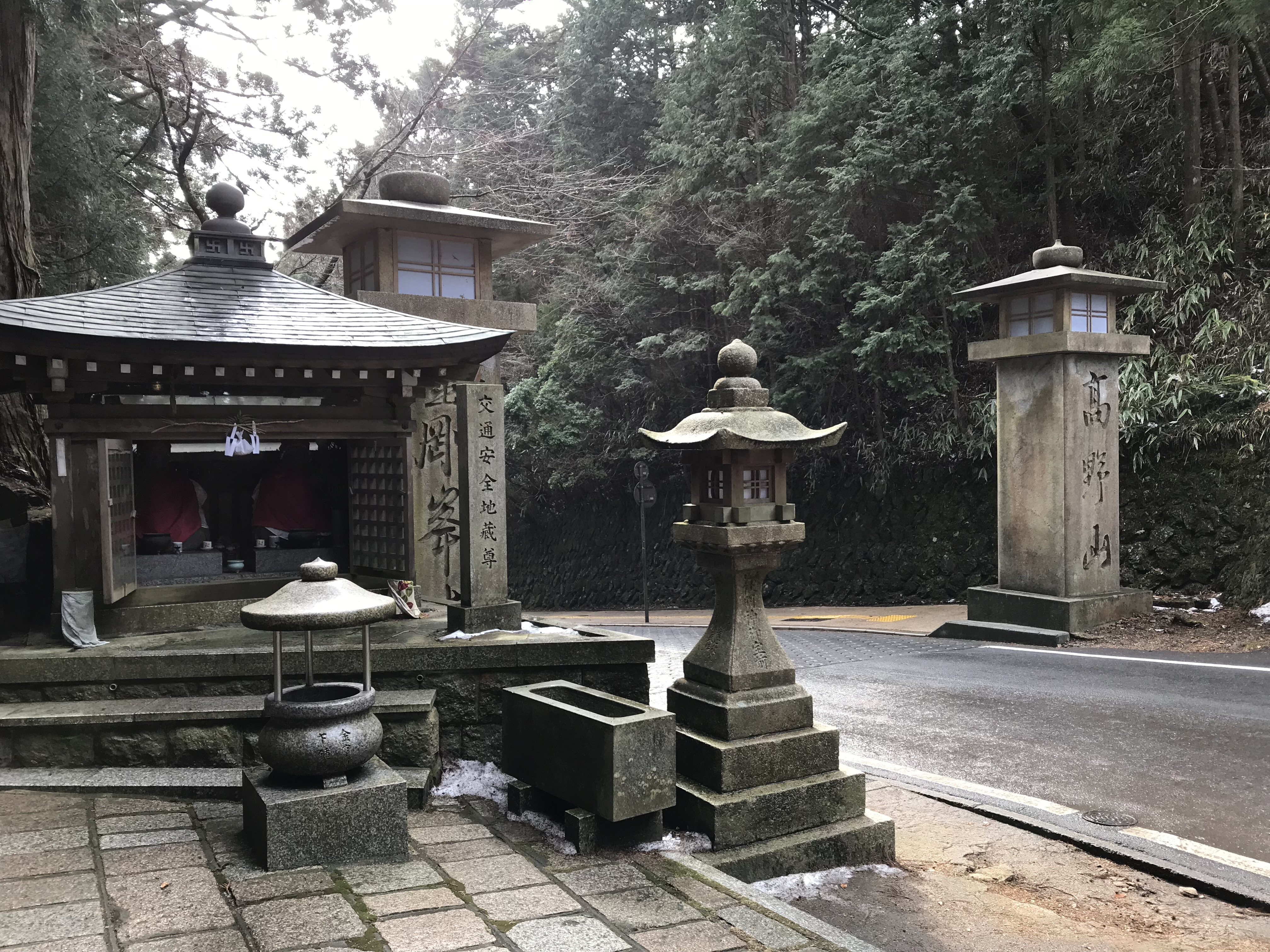 entrance to the area of the Kongōbu-Temple (Koyasan). The pillars marking the boundaris show the name Kongōbu-ji and the "mountain name" (sangō) of that temple Kōyasan.